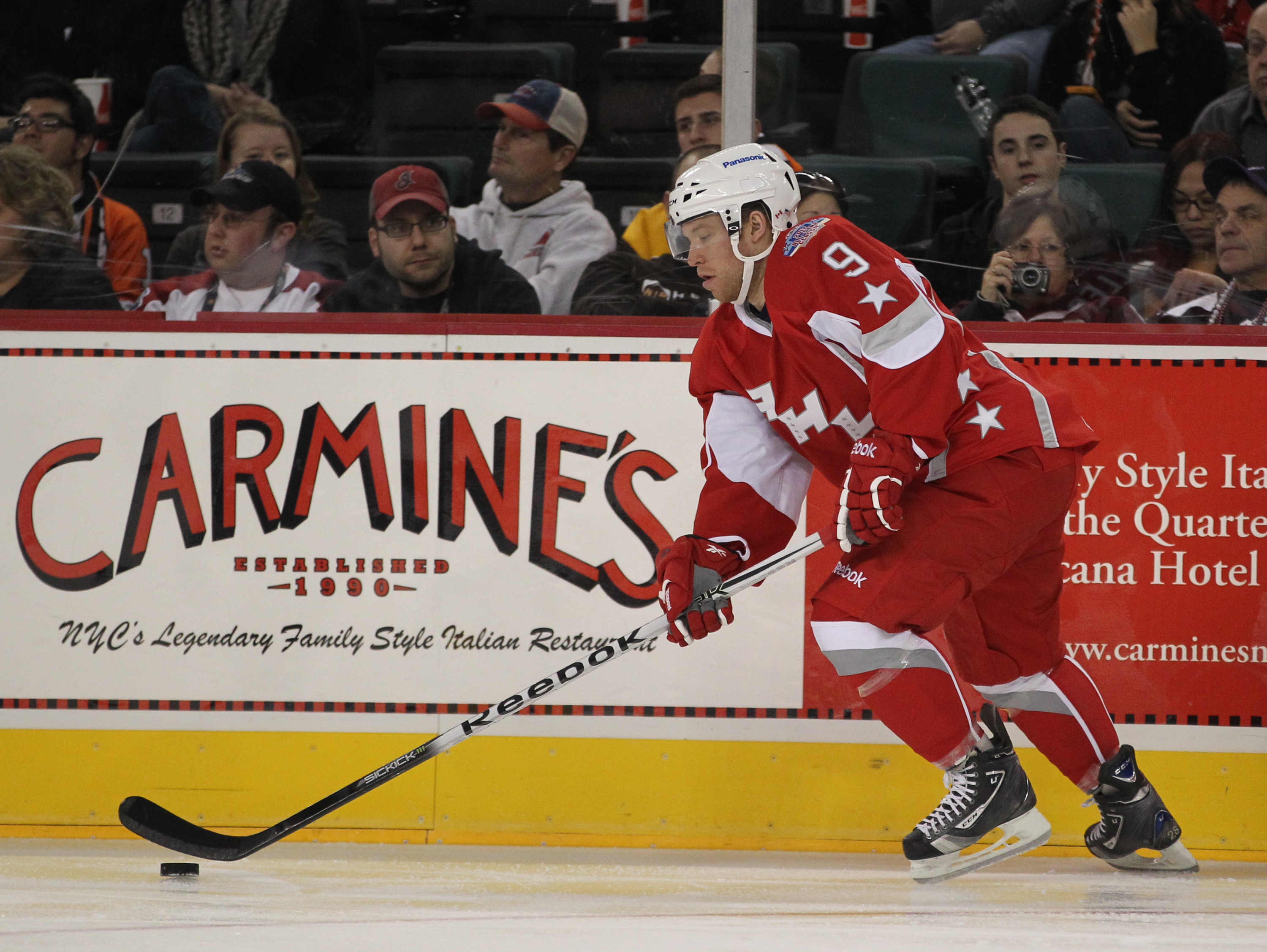 PhotoGraphics Photography/AHL American Hockey League (AHL) All-Star Game. Boardwalk Hall - Atlantic City, NJ Taken on January 30, 2012 using a Canon EOS-1D Mark IV.